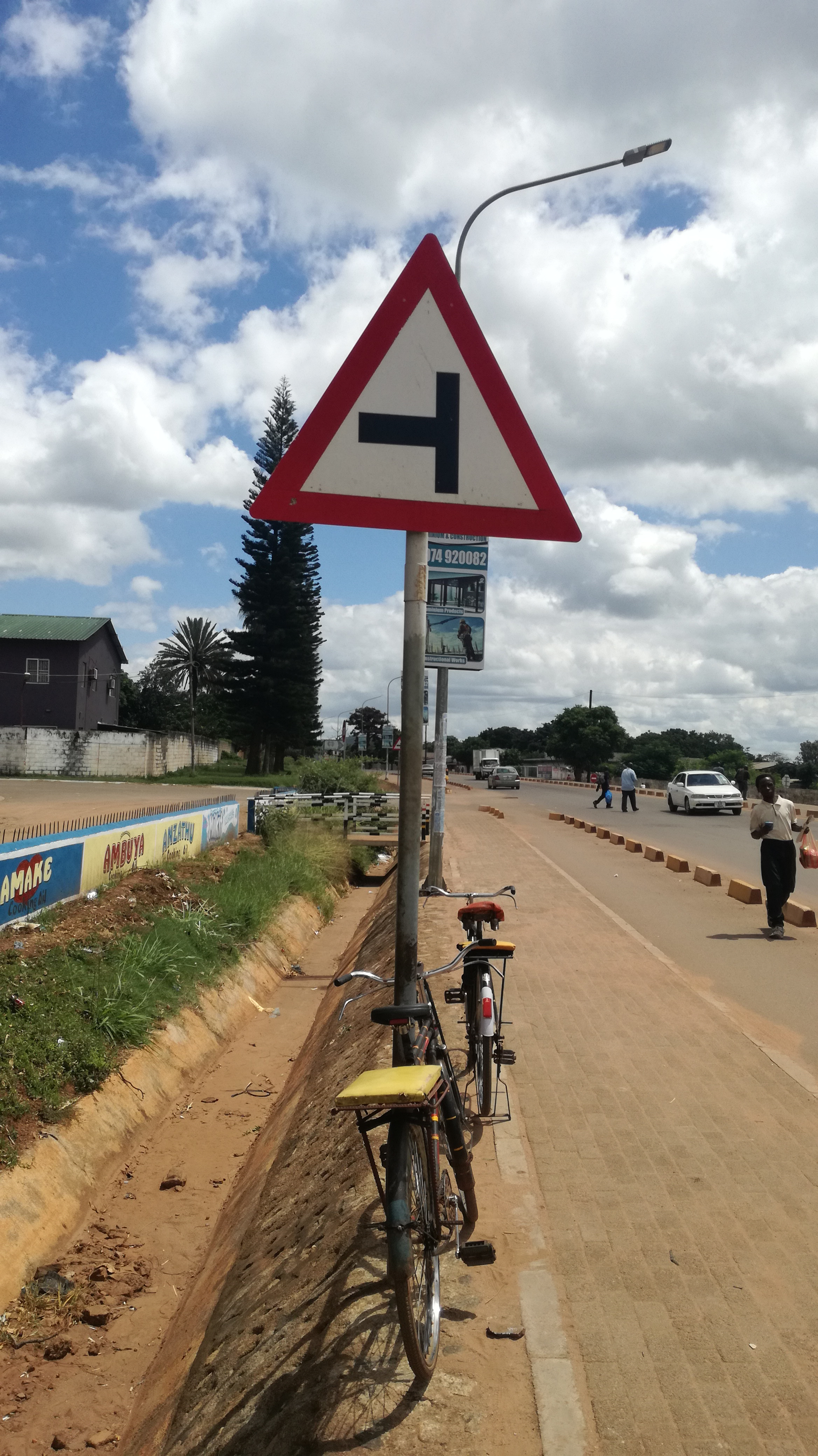 Bicycle taxis parked under traffic signs in Chipata, Eastern Province of Zambia. This is an image with the theme "Africa on the Move or Transport" from: Zambia